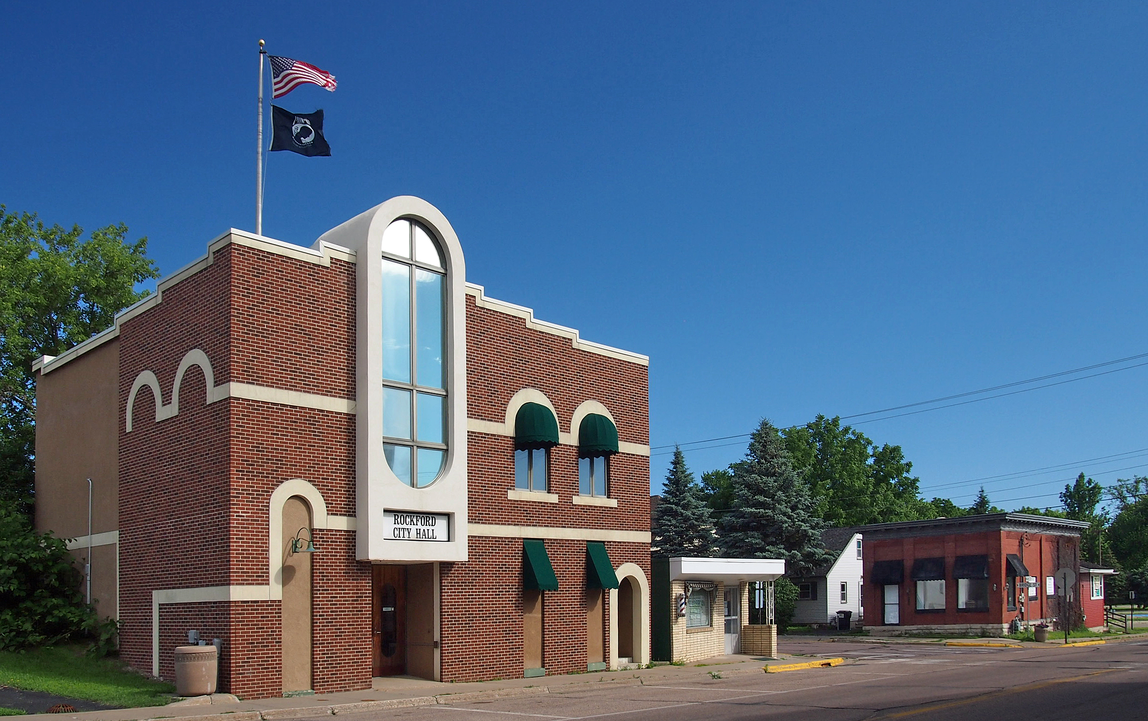 Main Street near its intersection with Bridge Street, Rockford, Minnesota, USA. View looking north with Rockford City Hall on left.